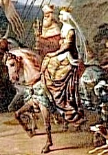 Detail of the painting Marguerite de France mène les Hongrois en croisade showing Margaret of France, Dowager Queen of England and Hungary, leading the Hungarians on Crusade